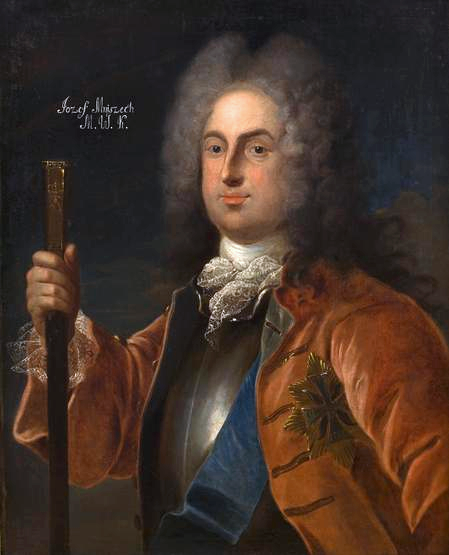 Józef Wandalin Mniszech